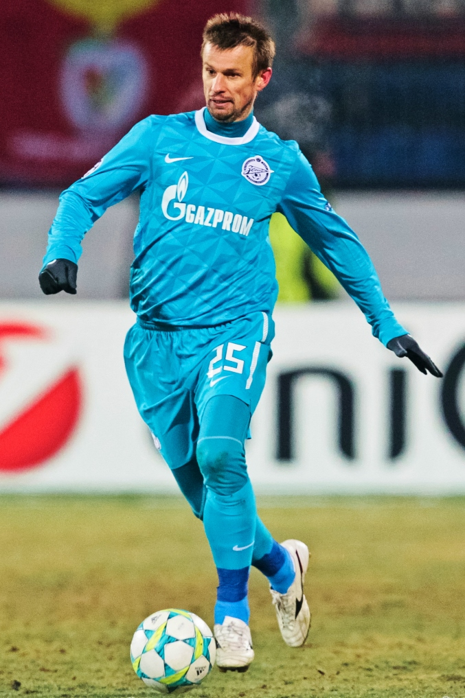 Sergei Semak